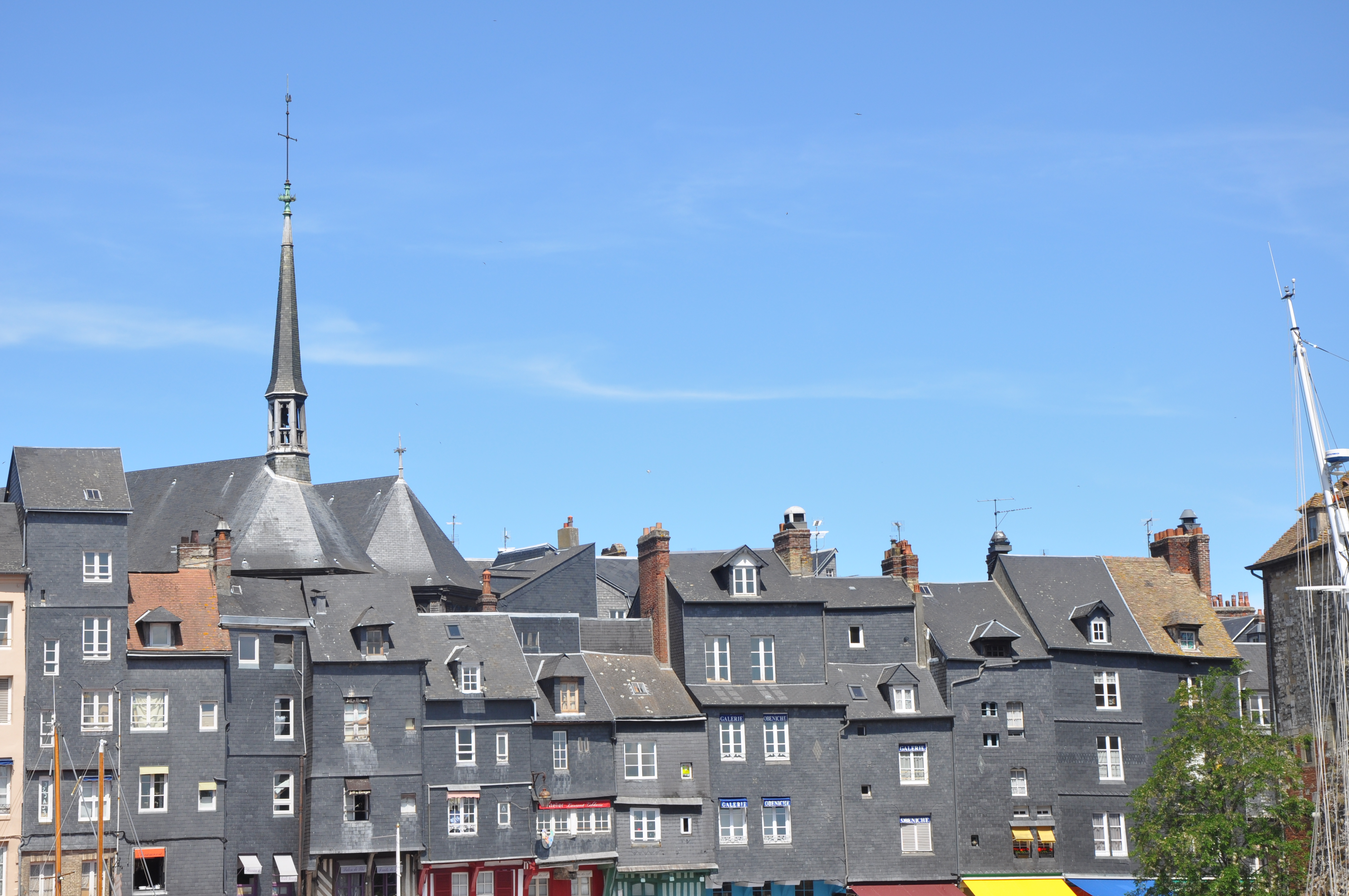 Slate roofs and slate walls in the "vieux bassin" (Honfleur, Normandy, France)